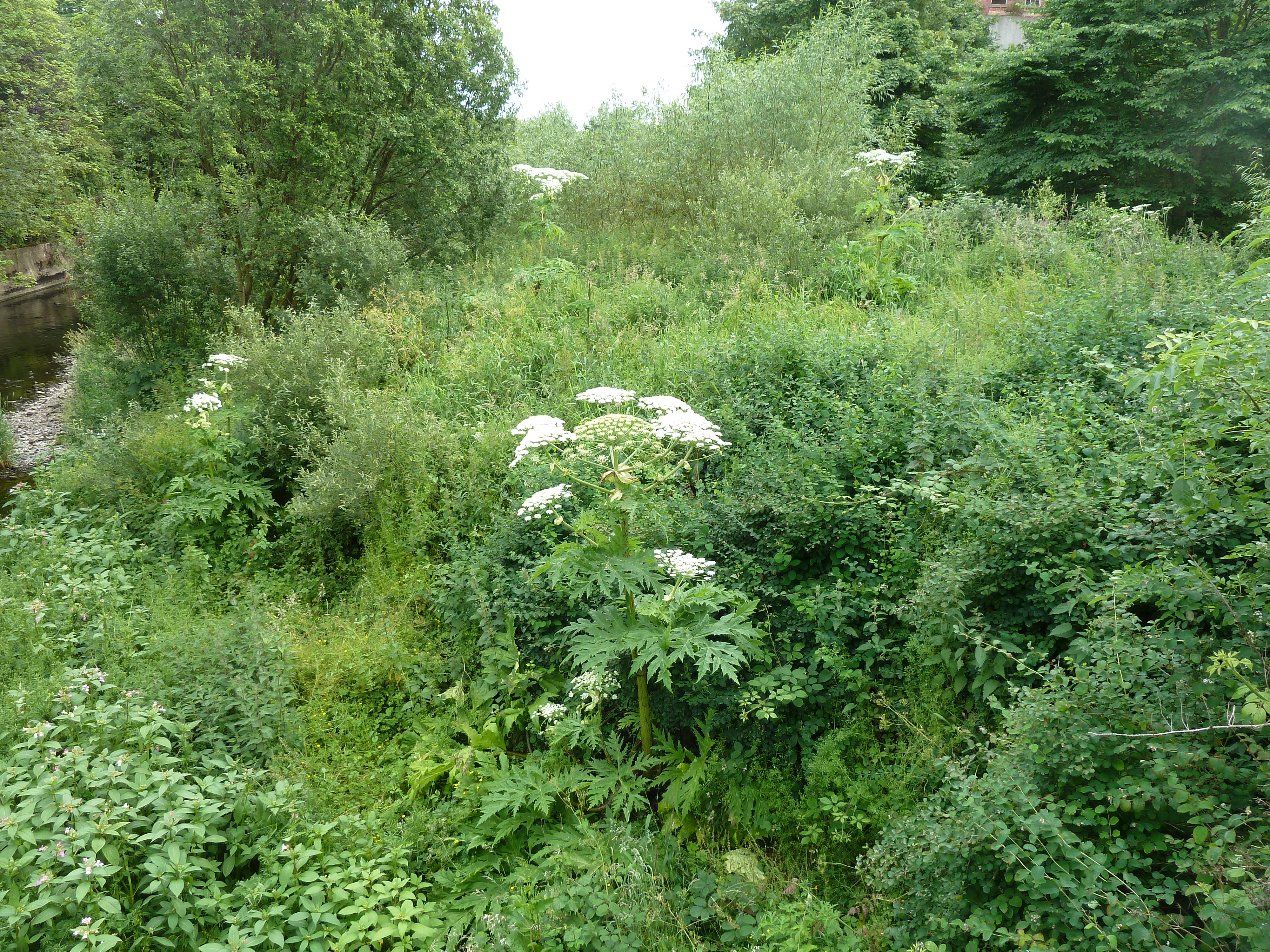 Hilden, Co. Antrim, Ireland late June 2015